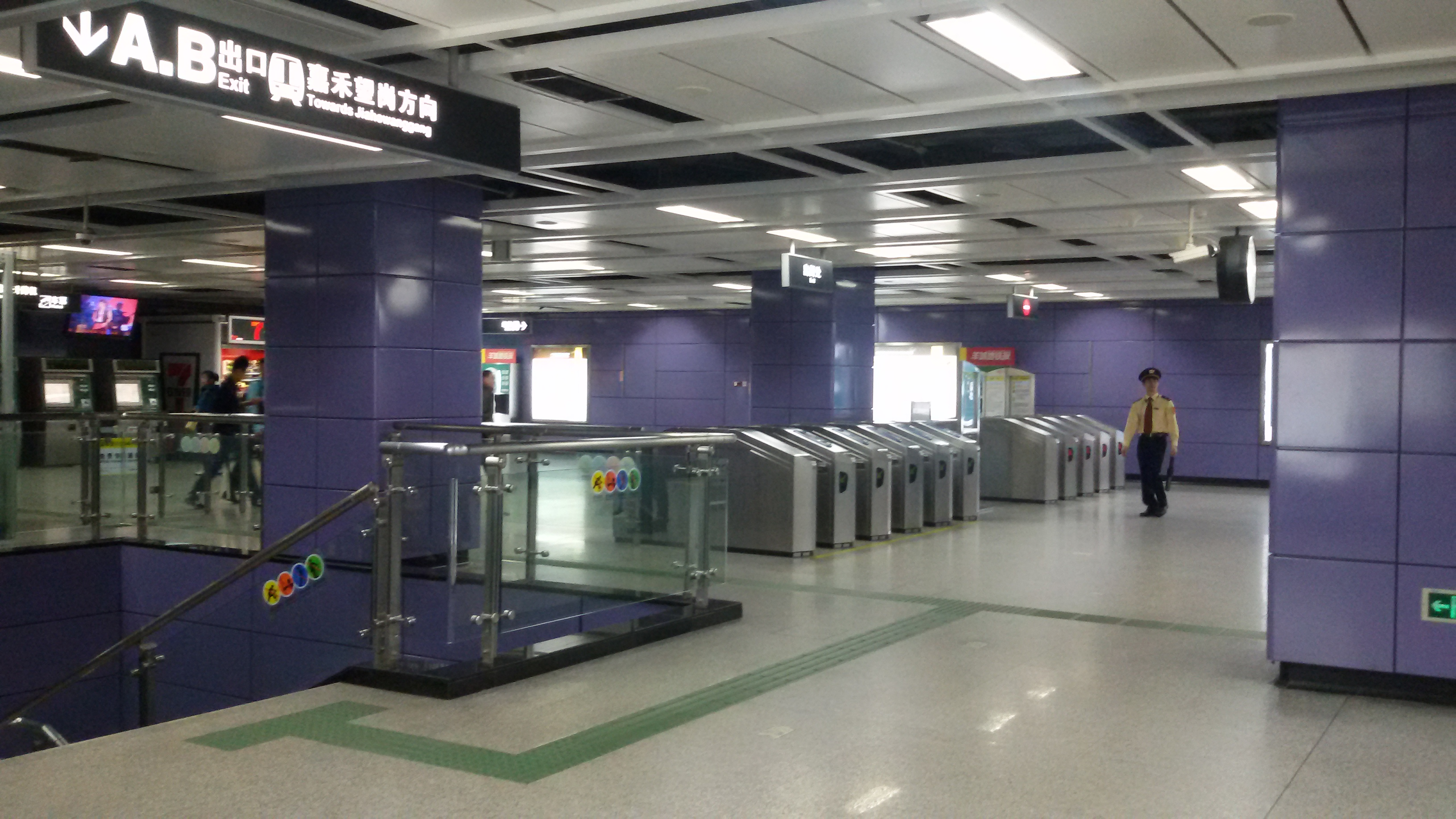 Station West Concourse for Huangbian Station in Guangzhou Metro.